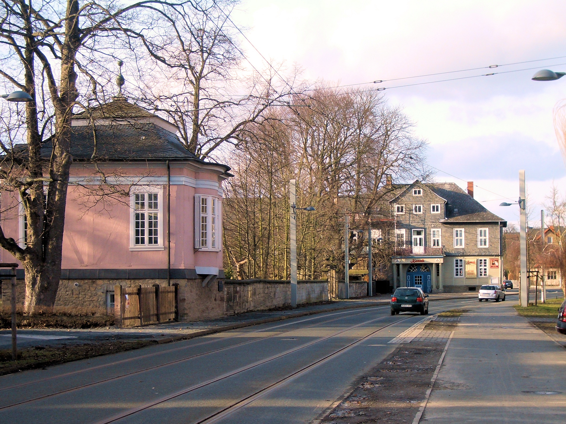 Rokoko-Pavillon at Stoeckheim with view over Großes Weghaus